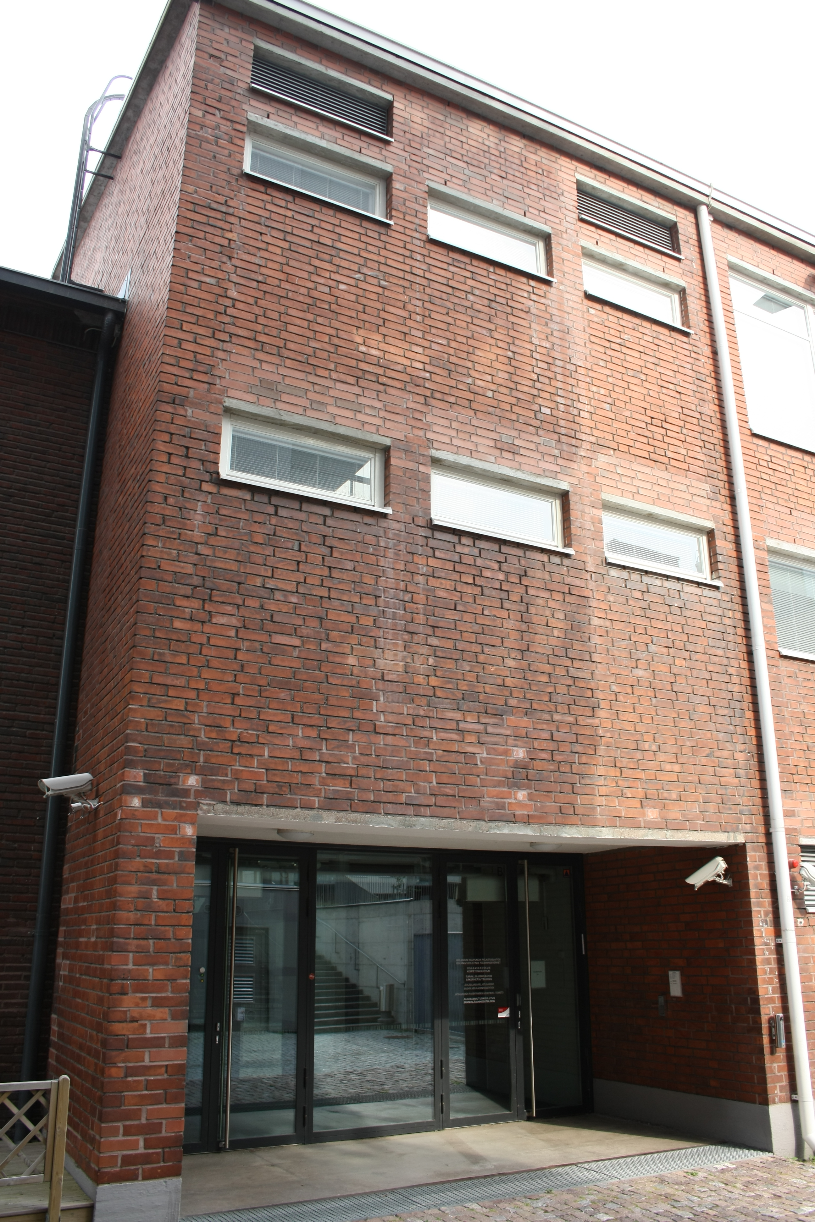 Rescue department of Jätkäsaari in Helsinki